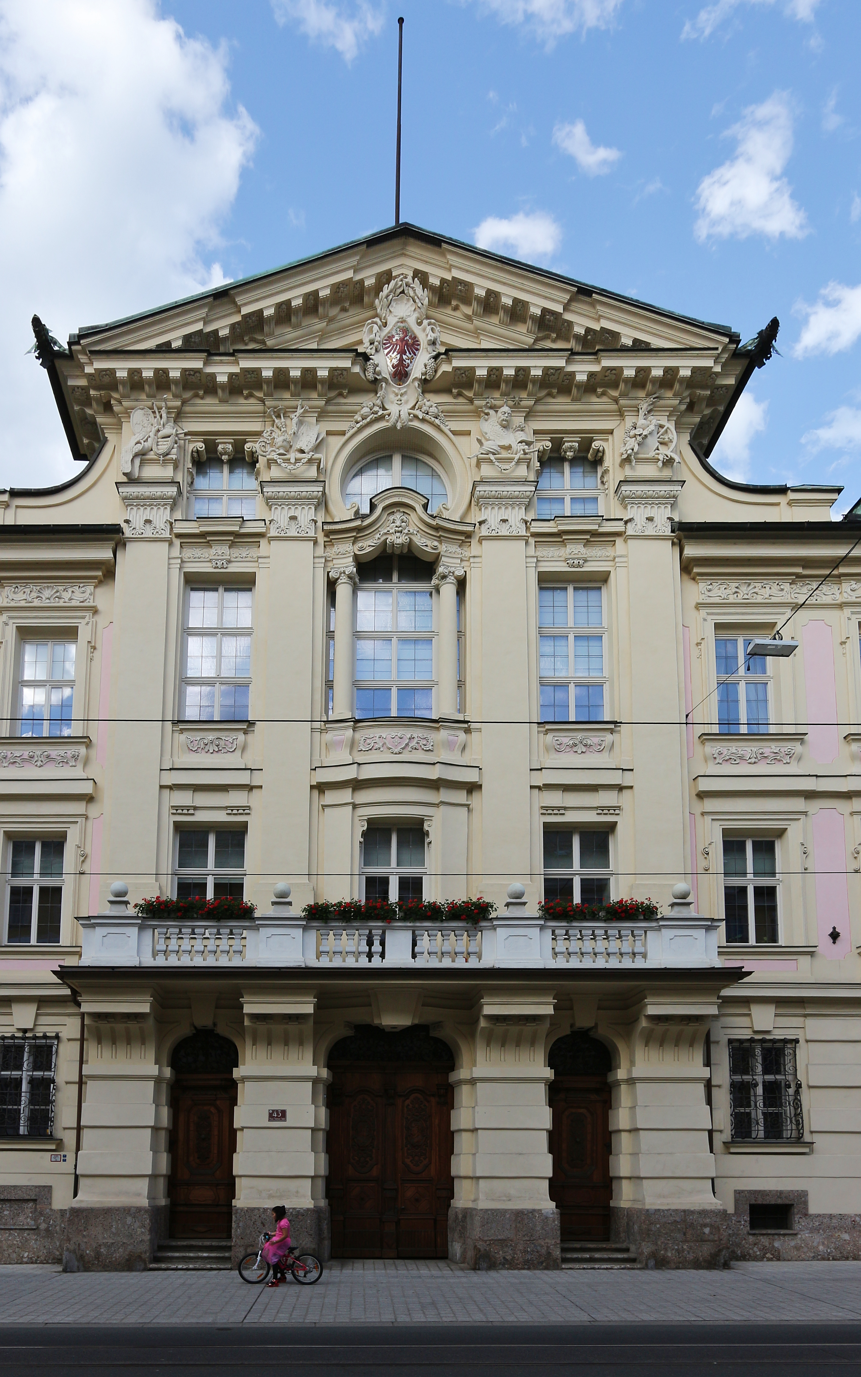 Maria-Theresien-Straße 43 This media shows the remarkable cultural object in the Austrian state of Tyrol listed by the Tyrolean Art Cadastre with the ID 83612. (on tirisMaps, pdf, more images on Commons, Wikidata)